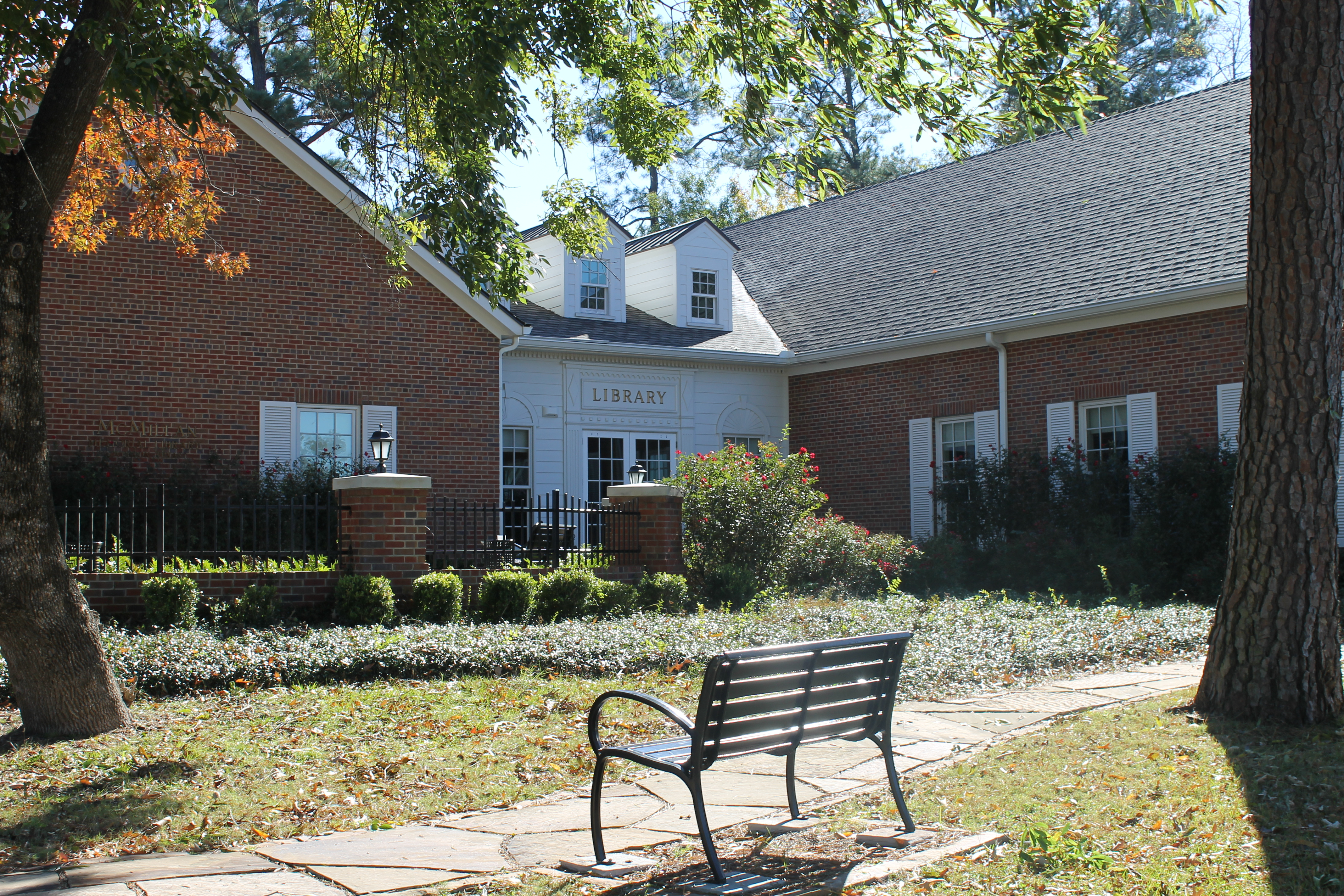 McMillan Memorial Library, established 1956, in Overton, TX